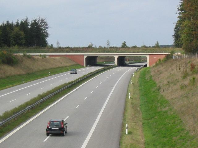 A wildlife overpass on Autobahn 14, east of Schwerin, Mecklenburg-Vorpommern, Germany.